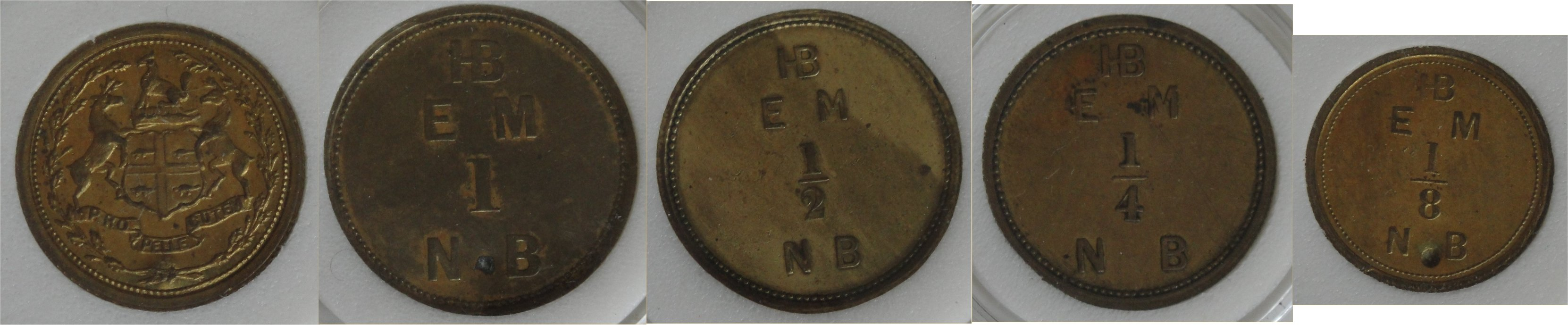 This is a photo of a set of Hudson's Bay Company tokens, made of brass, and used circa 1854. They were used in Hudson's Bay Company trading posts in the Eastmain district (east of Hudson's Bay). They are denominated in "Made Beaver" [pelts] or fractions thereof: 1, 1/2, 1/4, 1/8#